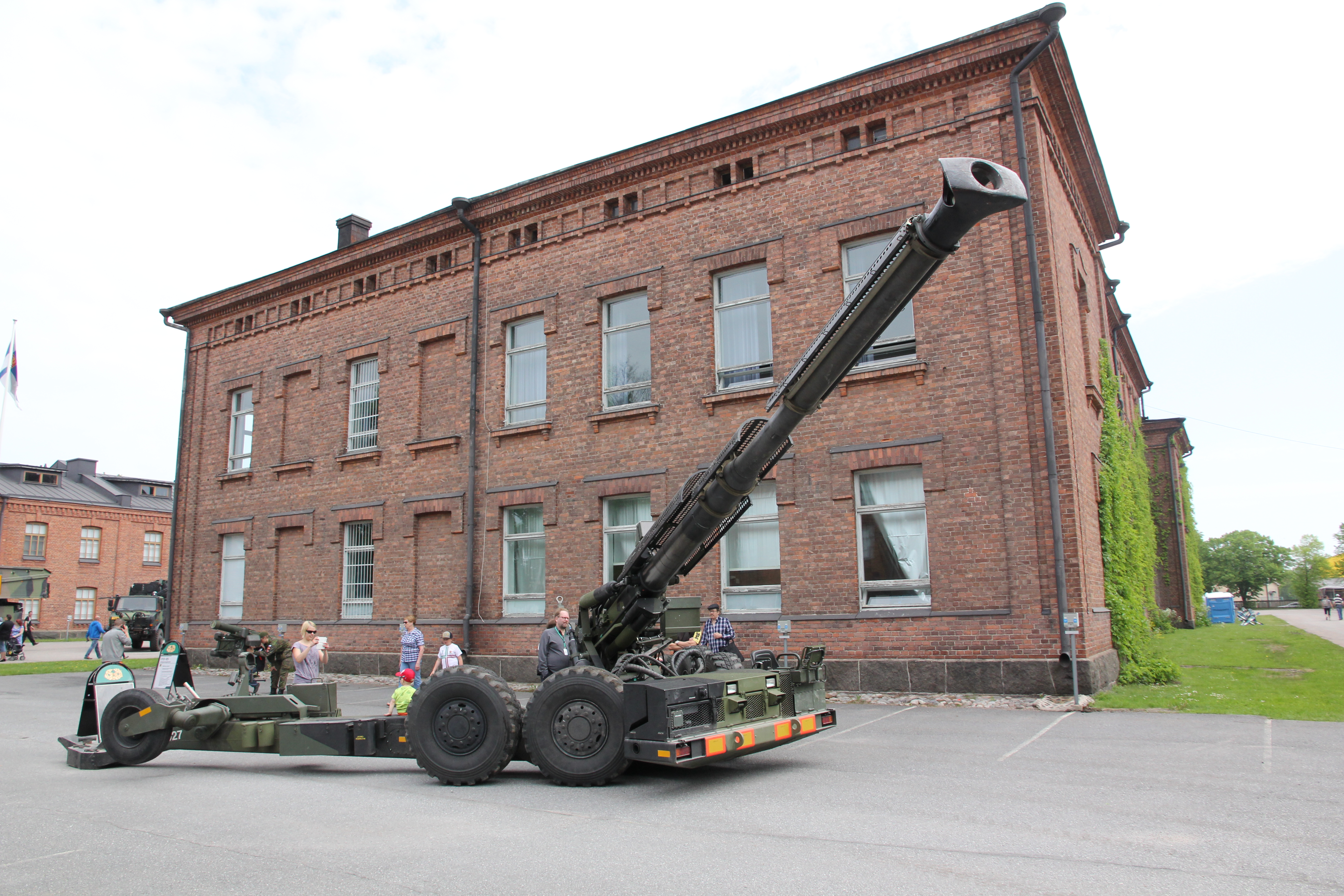 155 K 98 cannon on display during Finnish Defence Forces 2014 Flag day in Lappeenranta Rakuunanmäki.